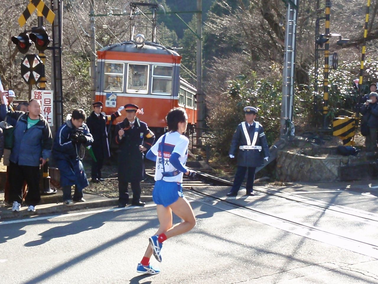 When the runner of Hakone-ekiden Relay Race passes, Hakone Tozan Railway stops the train in this side of the railroad crossing.